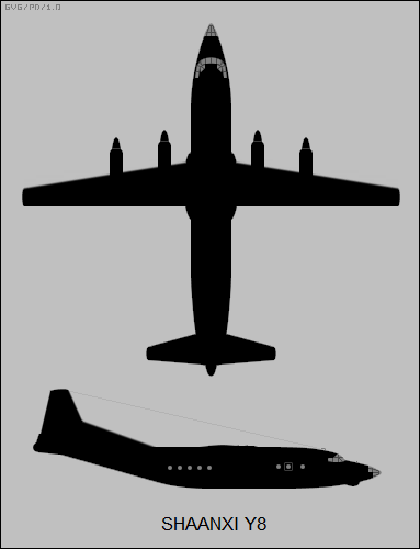 2-view silhouettes of the Shaanxi Y-8